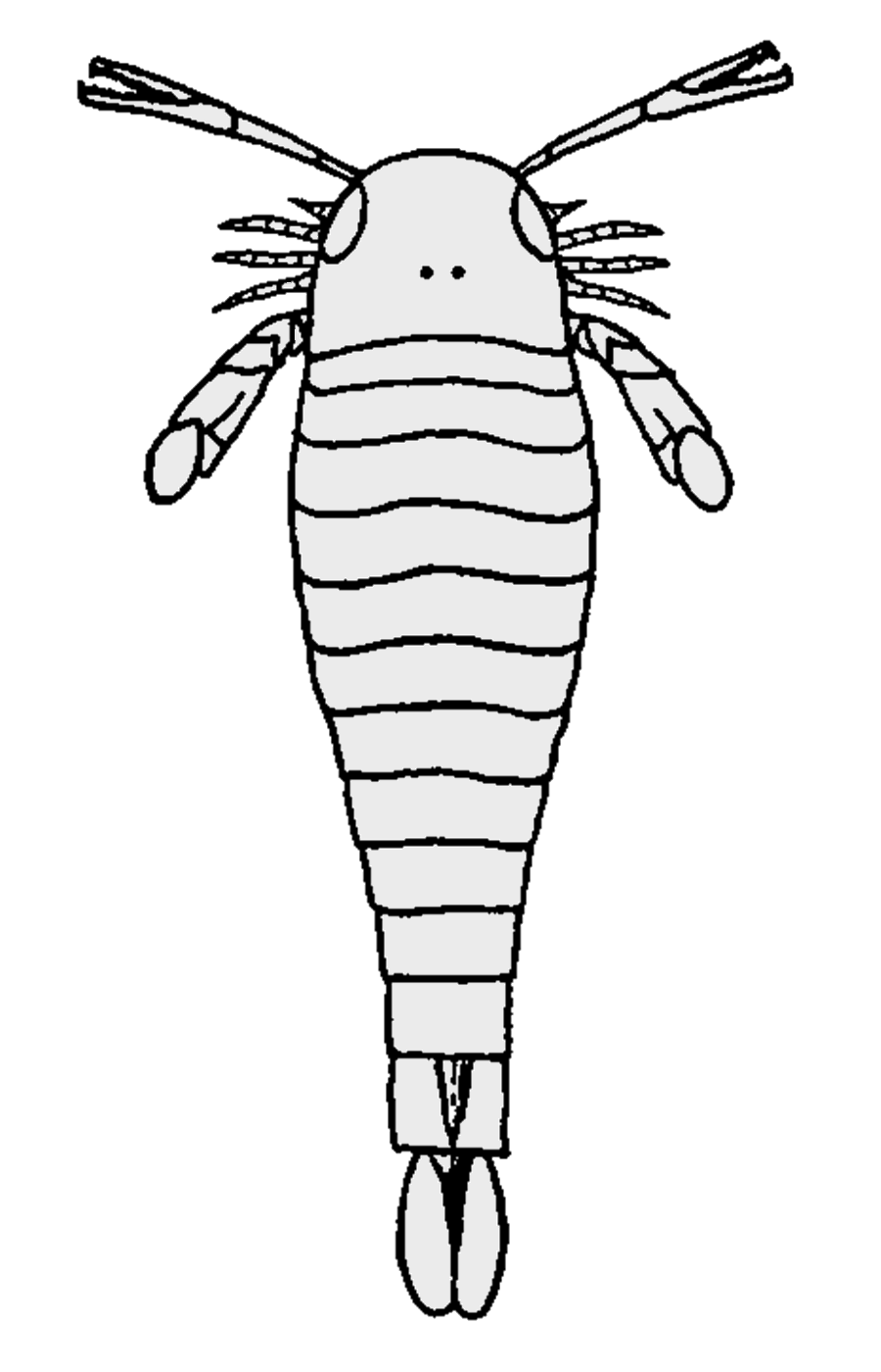 Dorsal view of Erettopterus, using this public domain image: and the appendages of this related genus